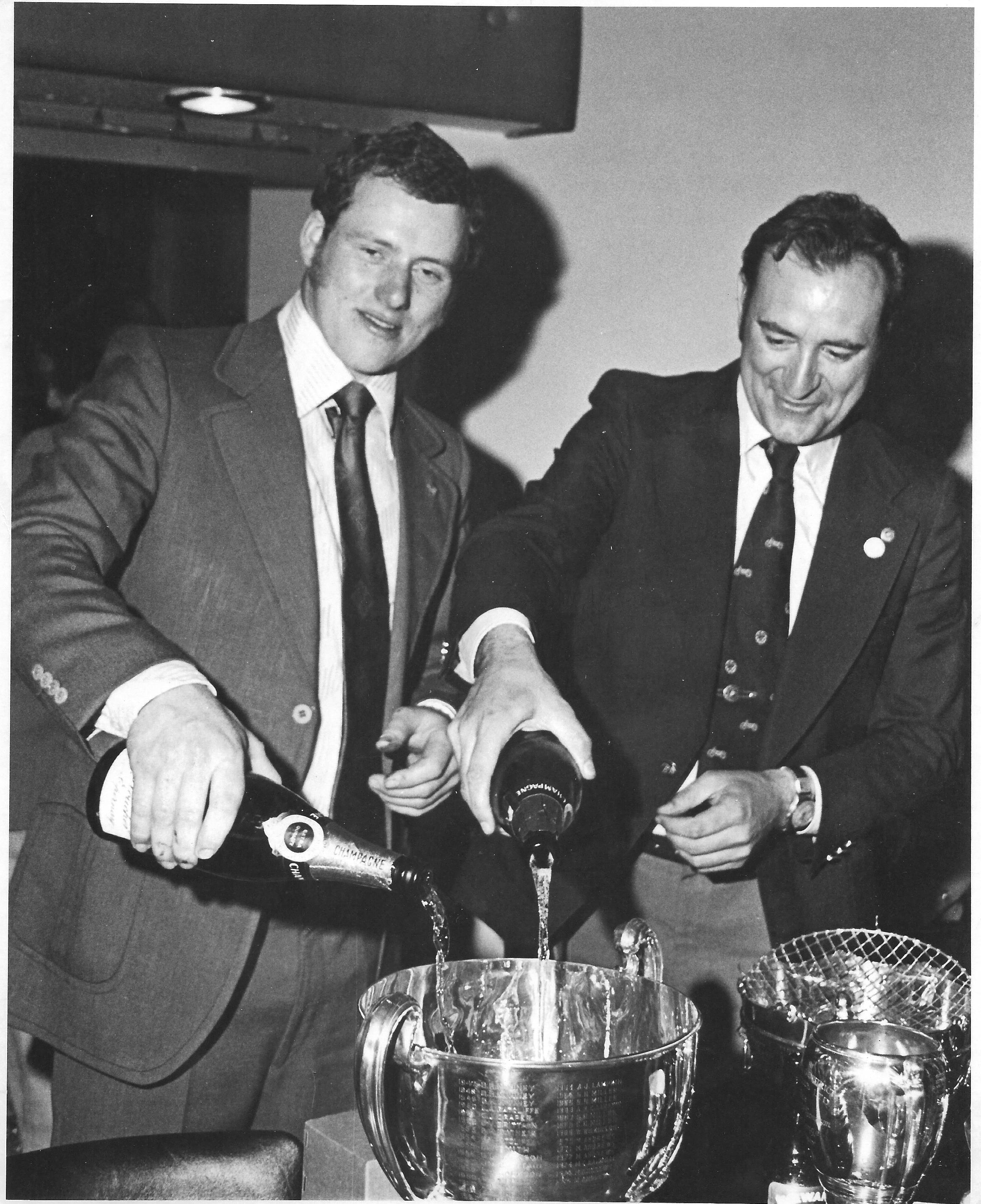 Martn Lampkin celebrates with Oriol Puig Bultó (right) his victory at the 1976 SSDT